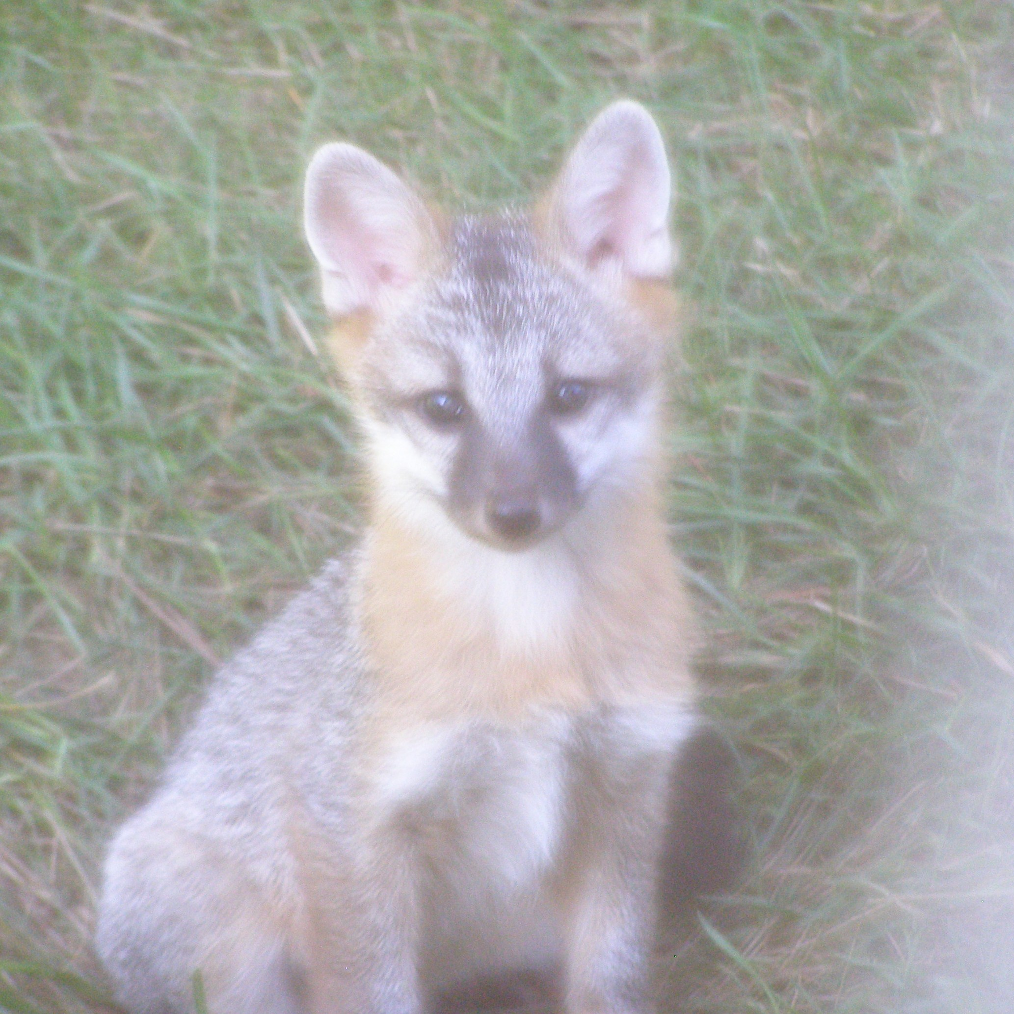 Juvenile grey fox